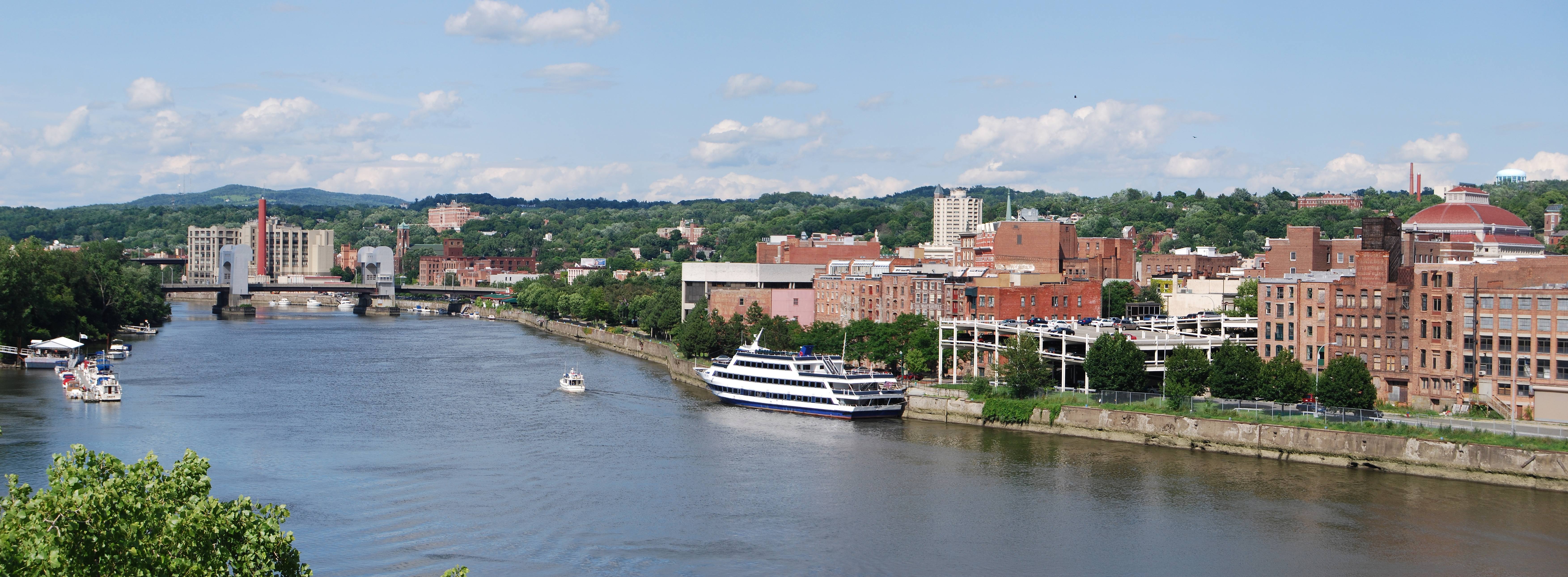 Waterfront of the city of Troy in New York, United States taken from the Collar City Bridge